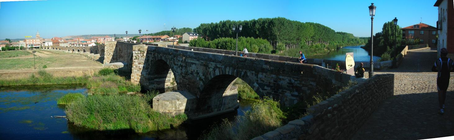 Medieval bridge located at Hospital de Órbigo (Spain)